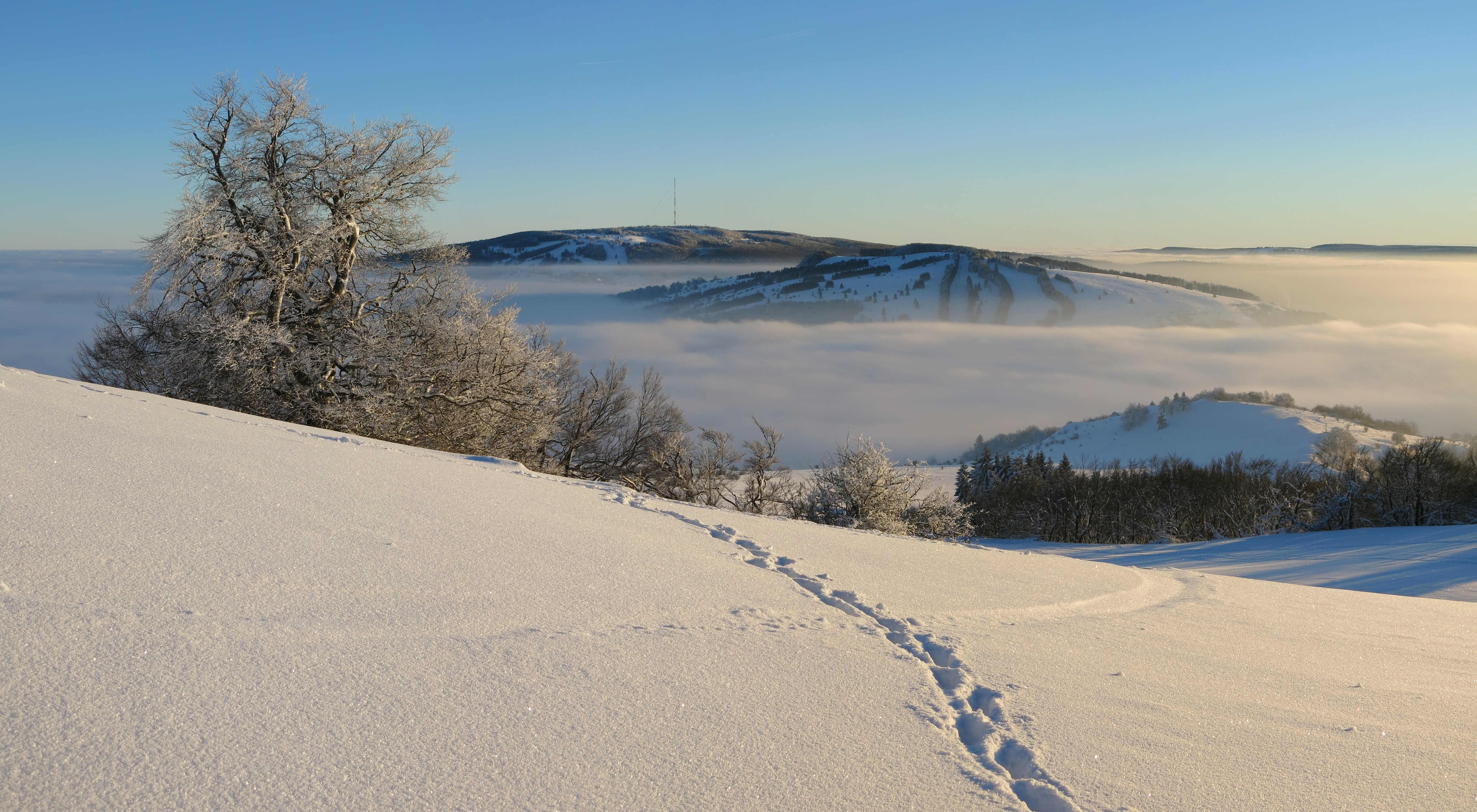 Witch-beech on Himmeldunkberg in the Rhön Mountains. In the background Kreuzberg and Arnsberg.